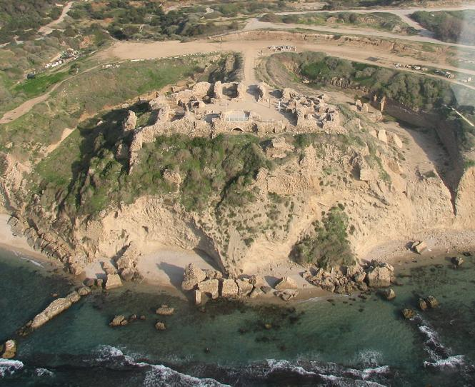 The crusader fortress of Arsuf (Arsur), Israel